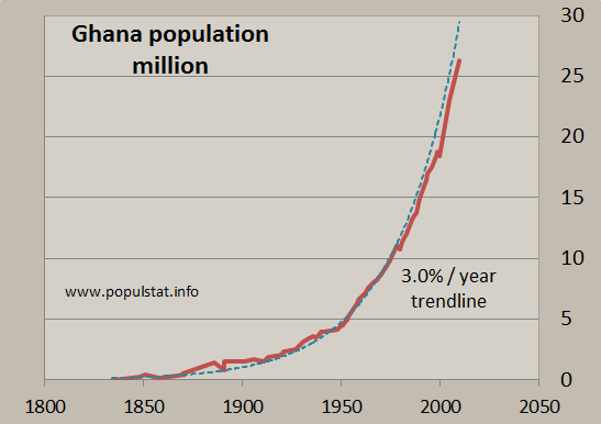 Historical population of Ghana